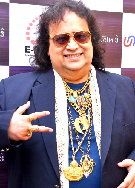 Bappi Lahiri graces musical concert ‘Rehmatein-3’.